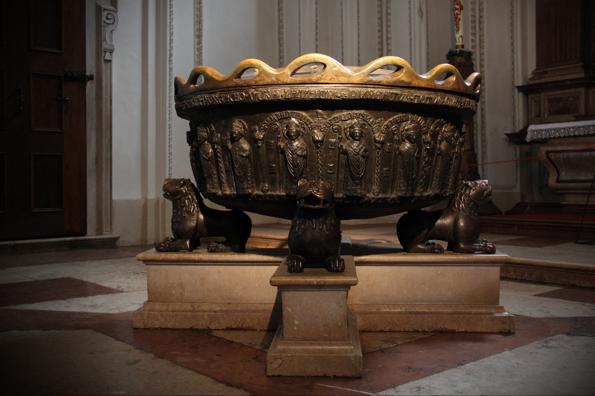 Salzburg Cathedral Native nameSalzburger DomLocationSalzburg, AustriaCoordinates47° 47′ 52.34″ N, 13° 02′ 47.9″ E Established8th century date QS:P,+750-00-00T00:00:00Z/7Web page control : Q258908 GND: 4224677-5 institution QS:P195,Q258908